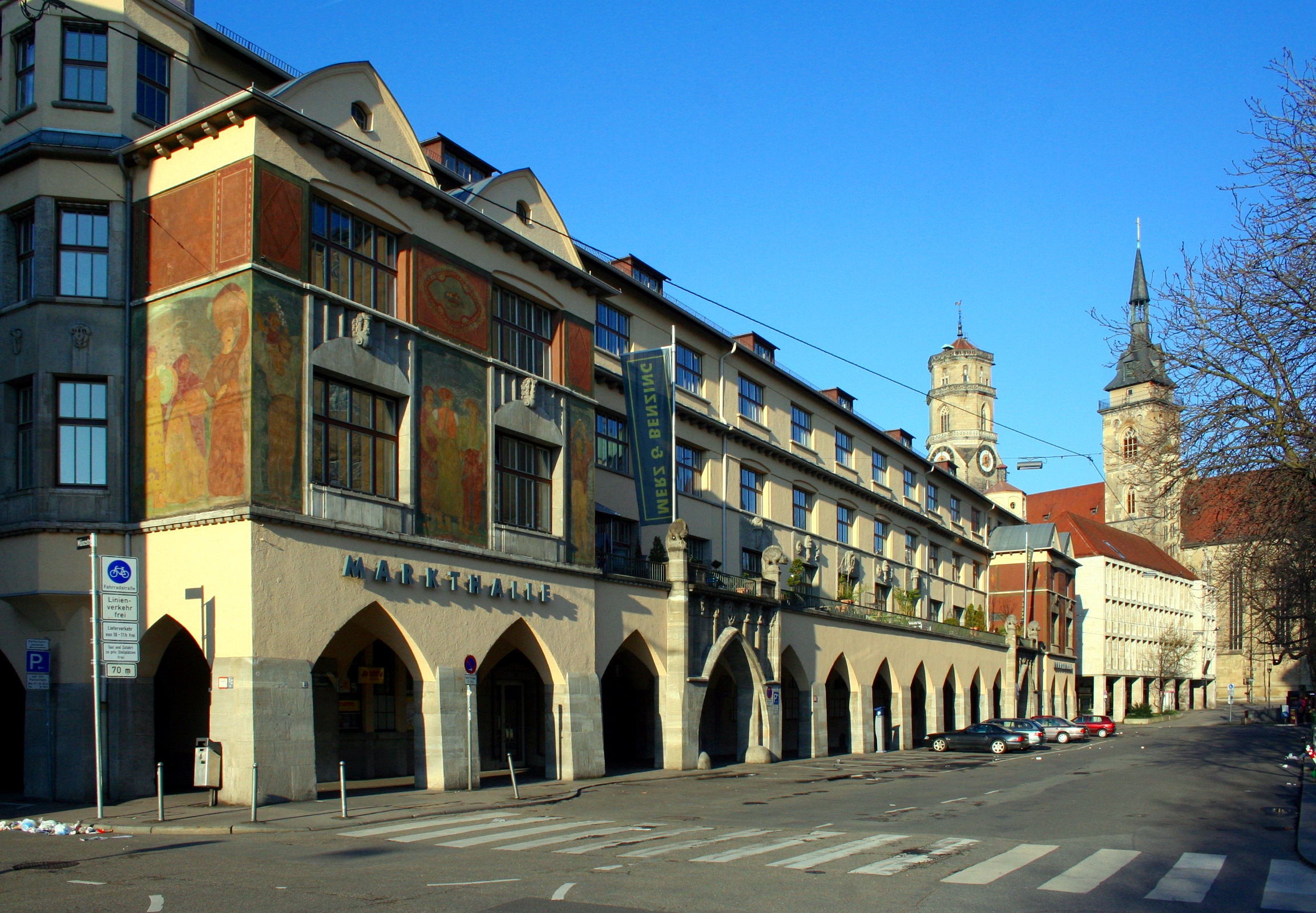 market hall, Stuttgart, Germany